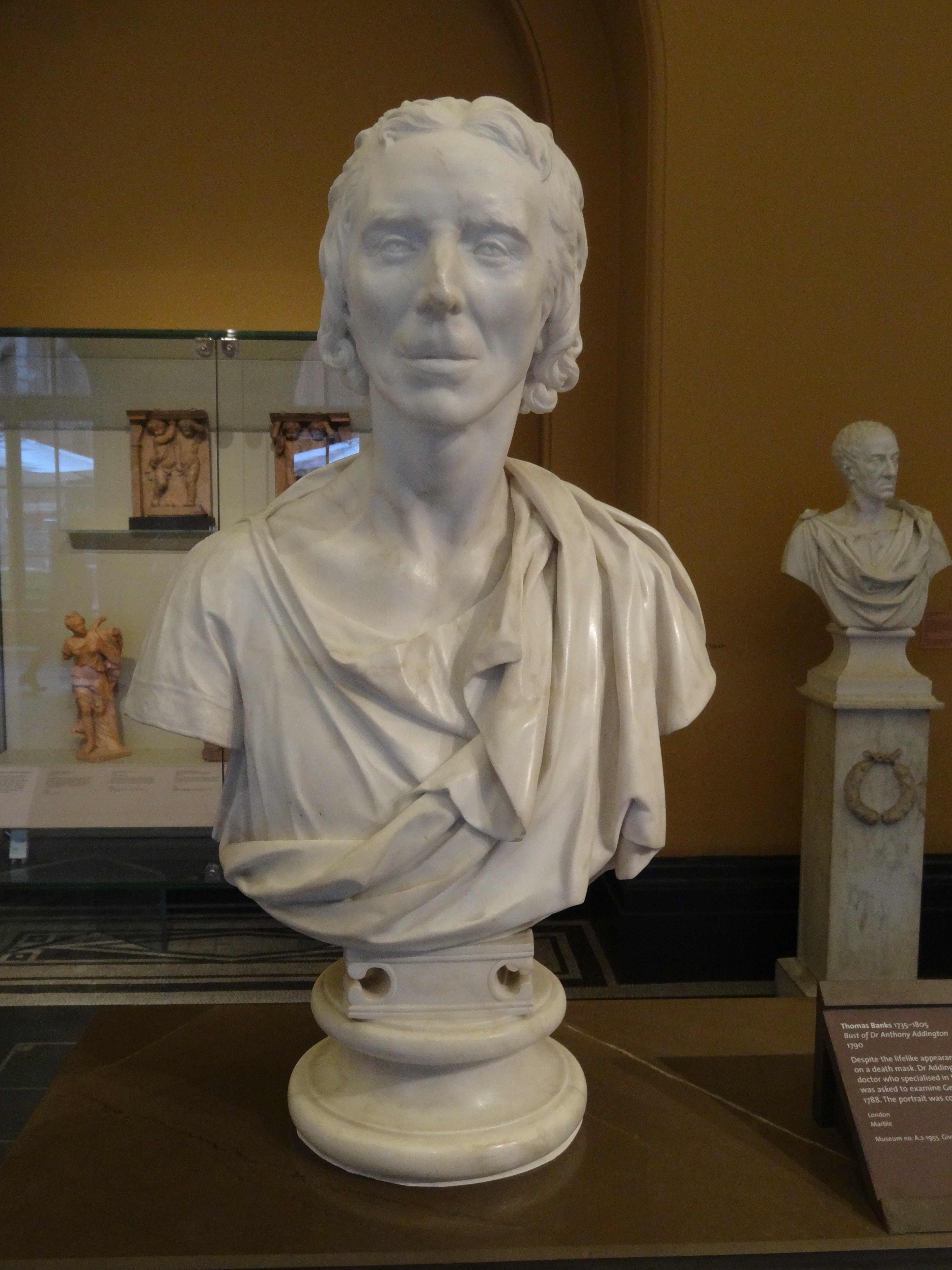 Anthony Addington by Thomas Banks, with thanks to the V&A for allowing photography